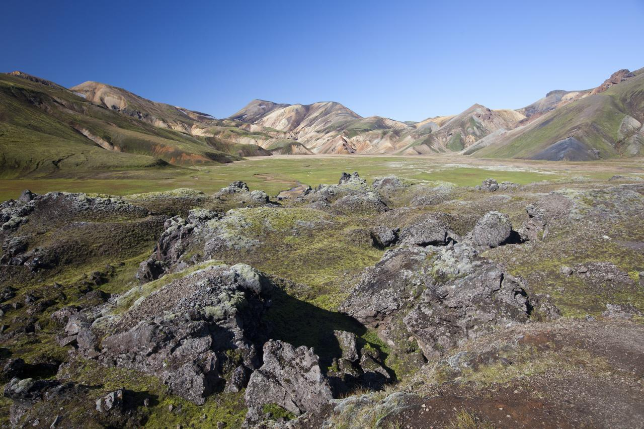 Iceland